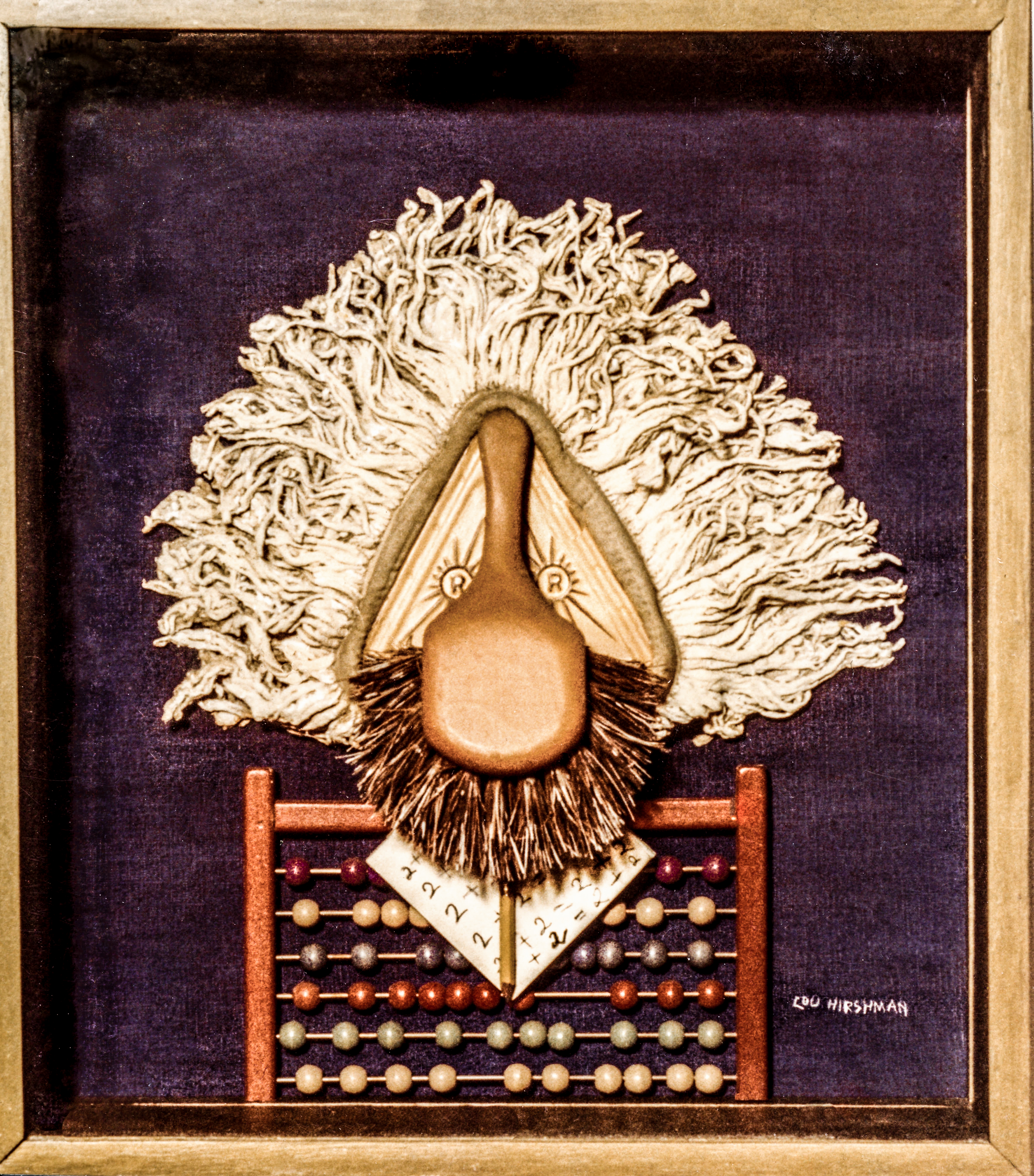 Caricature of Albert Einstein by Lou Hirshman. Mop hair, brush nose and mustache, abacus chest.